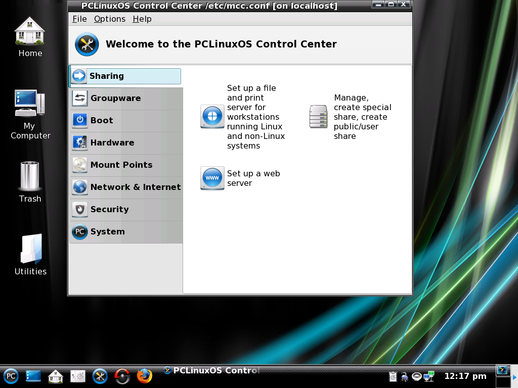 Screenshot of PCLinuxOS 80 Minime desktop with the PCLOS control centre showing